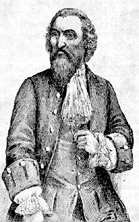 Fake portrait of Martinès de Pasqually, founder of Elus Cohen, published in Léo Taxil's anti-Masonry book Le diable au XIXe siècle ou, Les mystères du spiritisme, 1893.